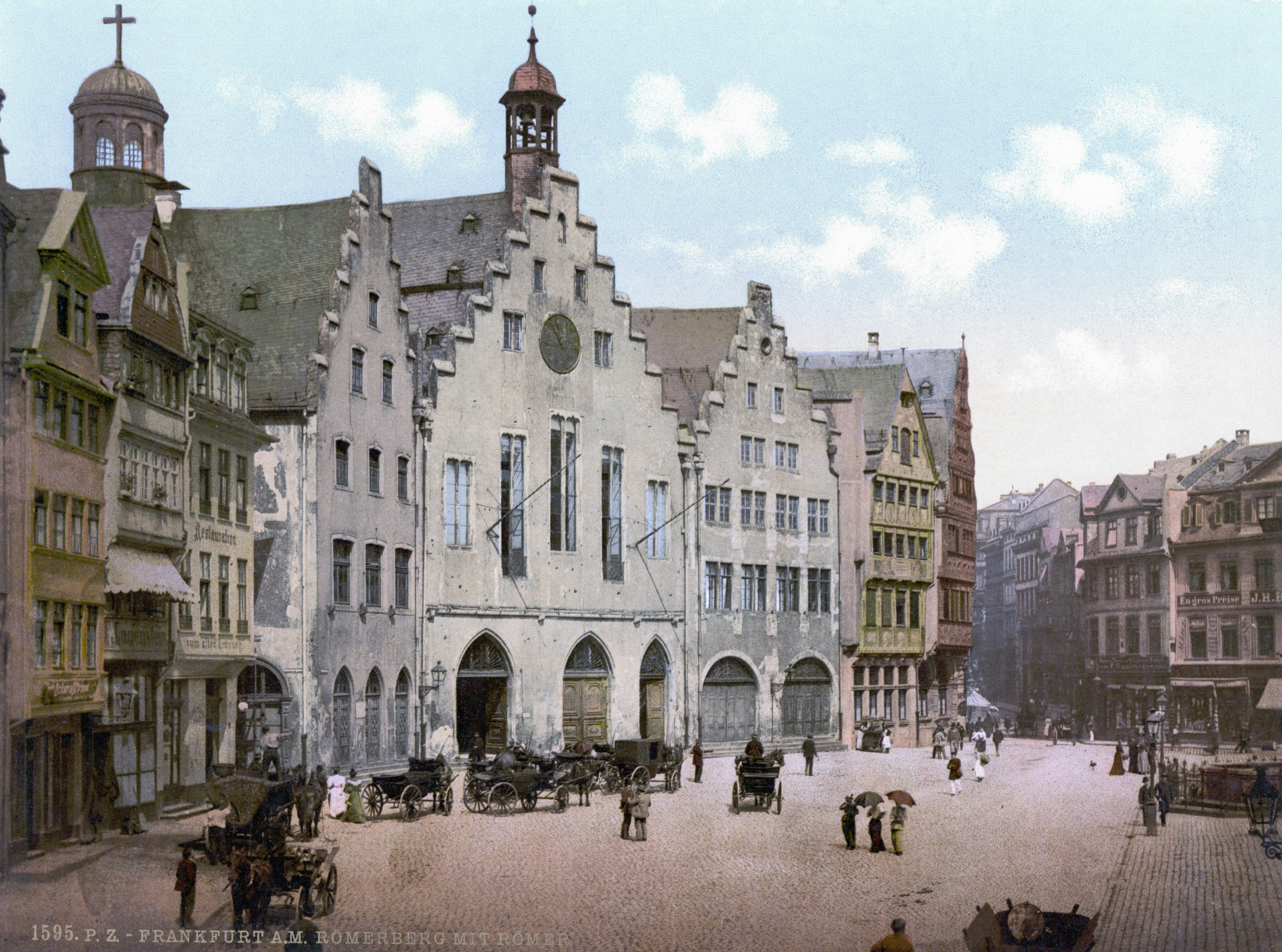 Facade of Frankfurt city hall "Römer" before its reconstruction 1900